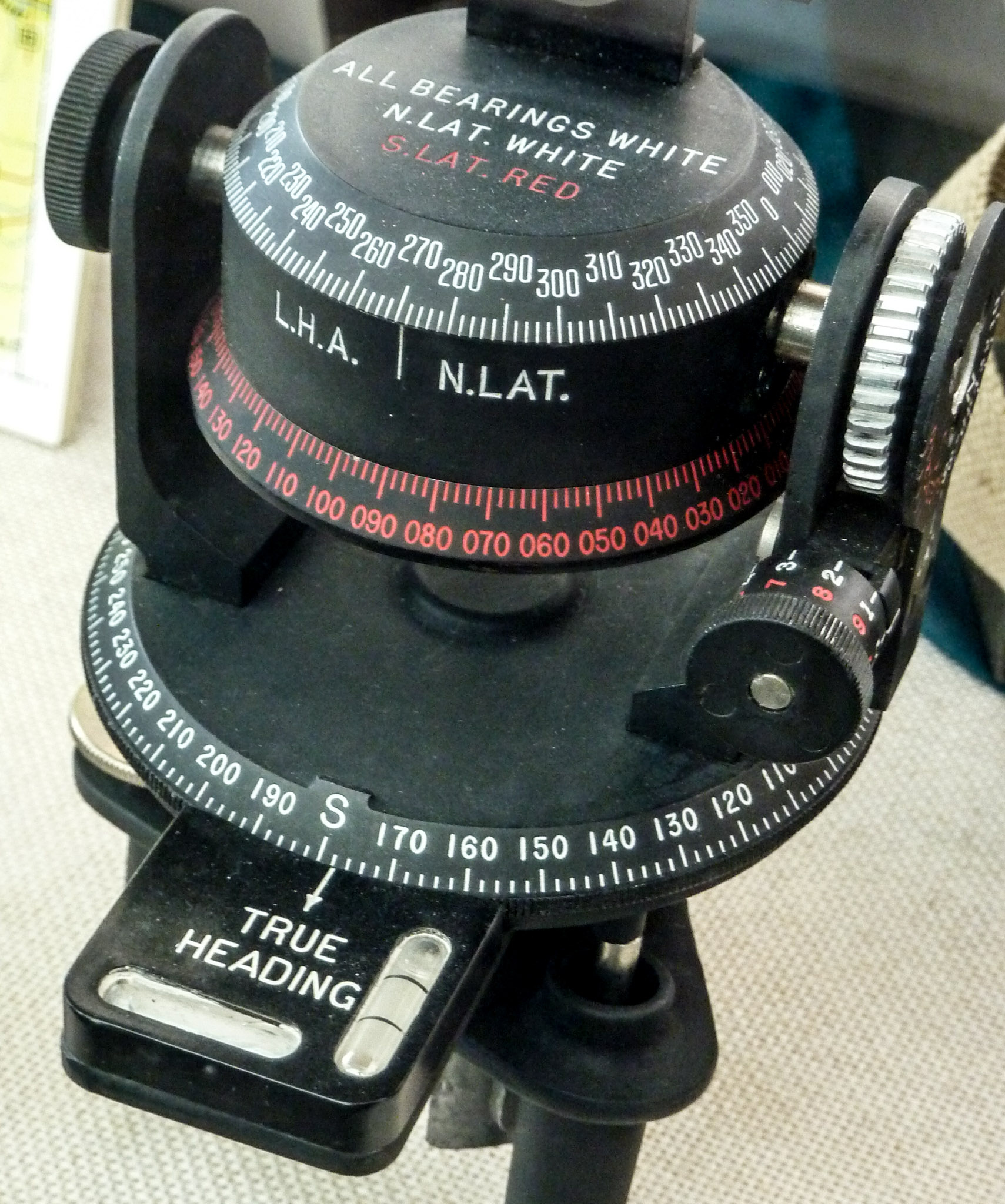 Dials and knobs on an astrocompass, used during World War II to navigate by the stars